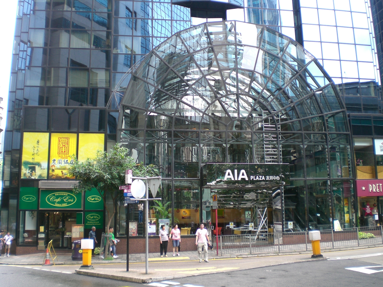 銅鑼灣, Causeway Bay Author= Kwanyatsw